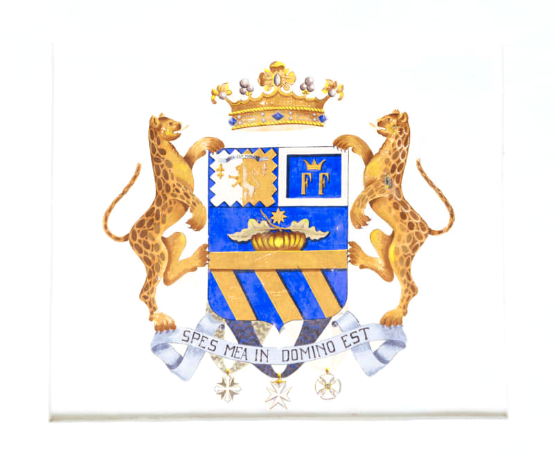 Cocozza. Italian Nobility of Amalfi since 1458. Coat of Arms visible in the Palazzo Cocozza, Casertaveccia, formerly the region of Nola.